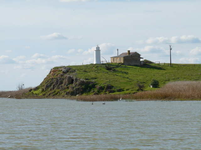 The only inland lighthouse in Australia at Malcom Point on Lake Alexandrina, of the Lower Lakes of the Murray River. It is no longer in use